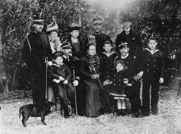 The family of George I, King of Greece in 1904